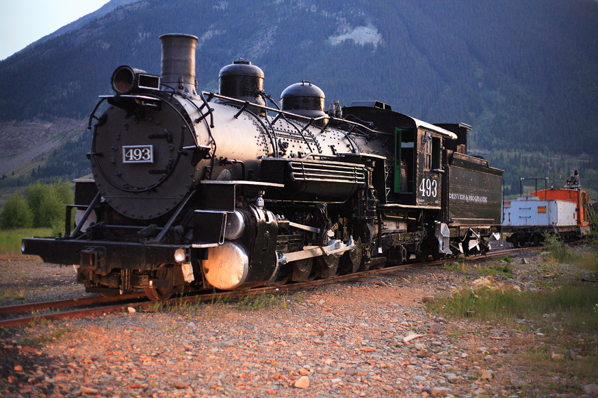 Durango and Silverton Narrow Gauge Railroad Steam Engine #493, Silverton, Colorado